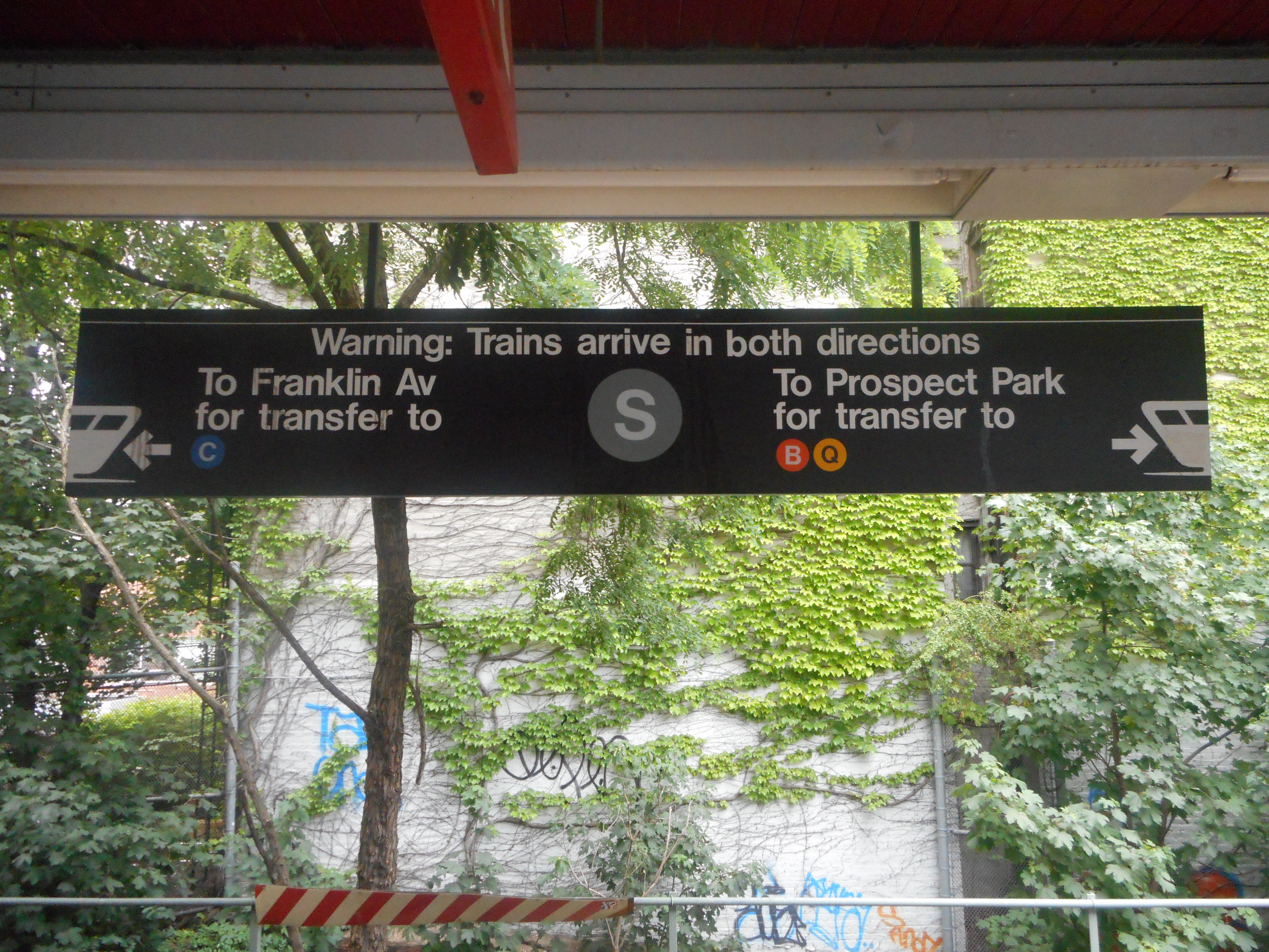 Less than standard Helvetica sign hanging from the canopy over the platform of the Park Place rapid transit station along the BMT Franklin Avenue Line in the Crown Heights section of Brooklyn, New York City. The sign tells commuters that trains move in both directions along the single track, as well as the other trains that the Franklin Avenue Shuttle leads to. Clearly one of the more unusual signs within MTA's inventory.